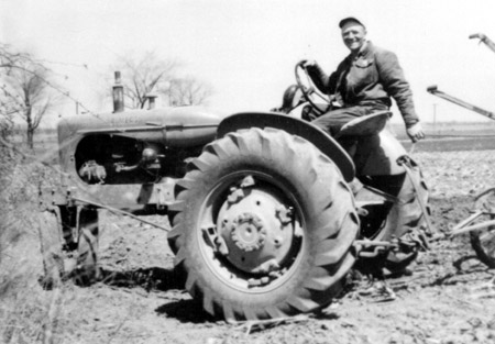 Roger Bartelt on an Allis-Chalmers WD tractor, USA. Note the absence of any rollover protection system.